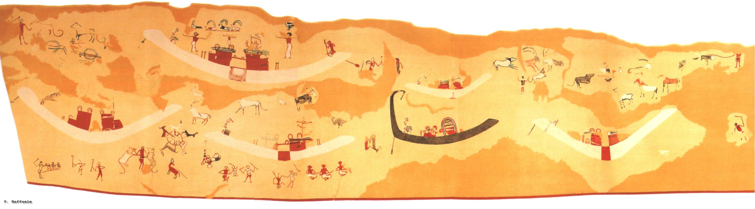 Painting in tomb T100, Hierakonpolis. Fragment in the Cairo Egyptian Museum